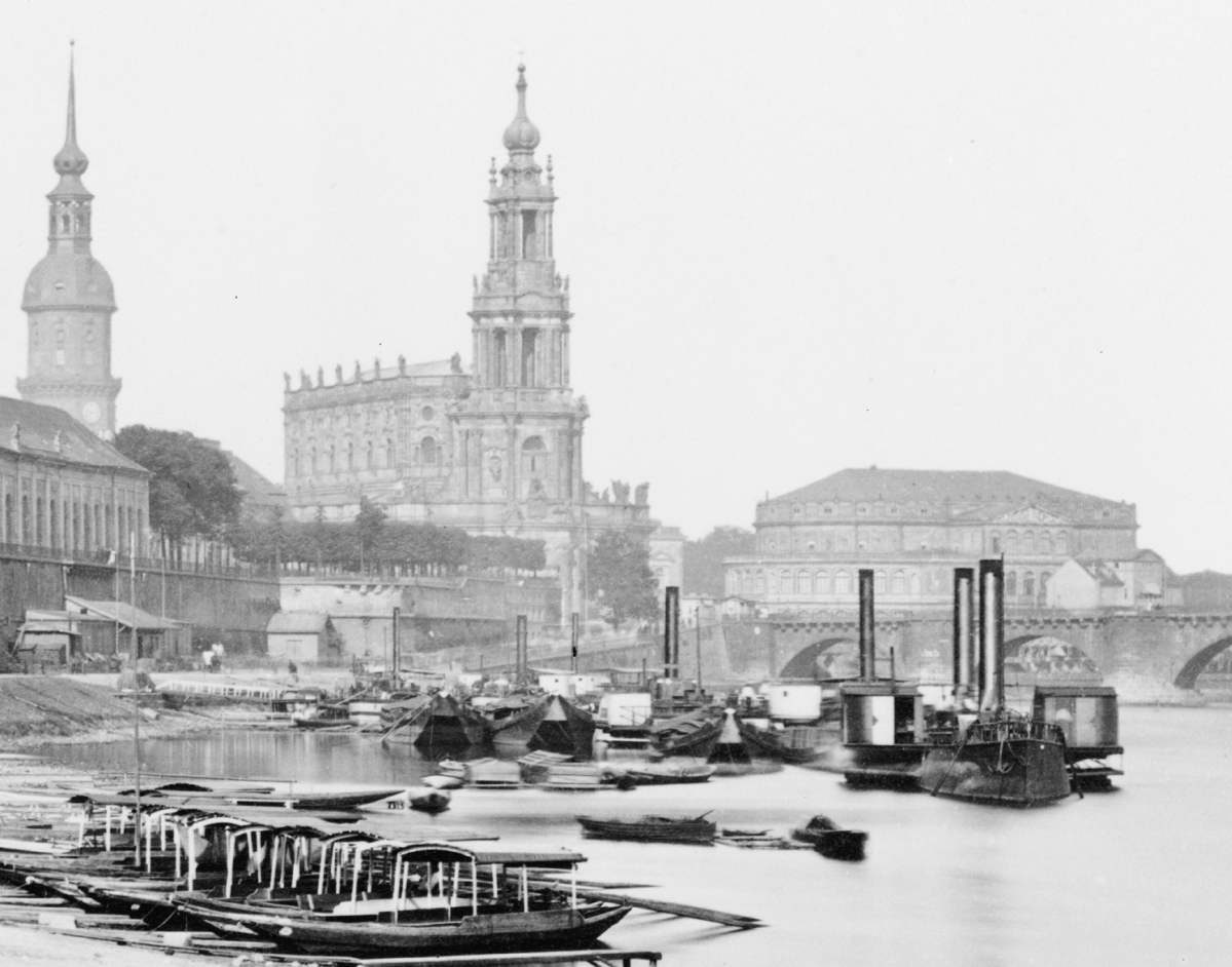 Dresden, Germany, first building of Semperoper, Katholische Hofkirche, Schloßturm, between 1860 and 1869